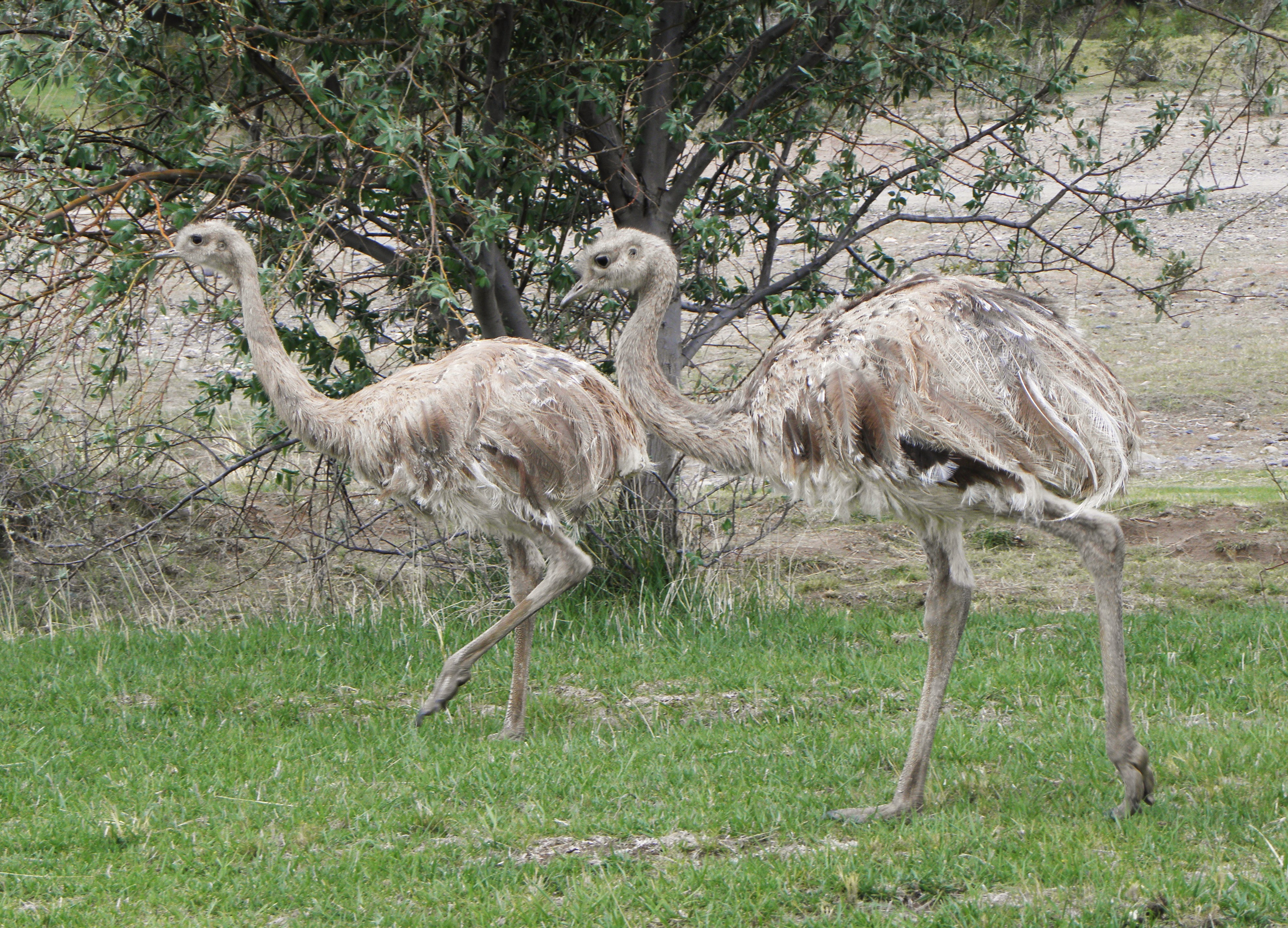 Patagonian Lesser Rhea